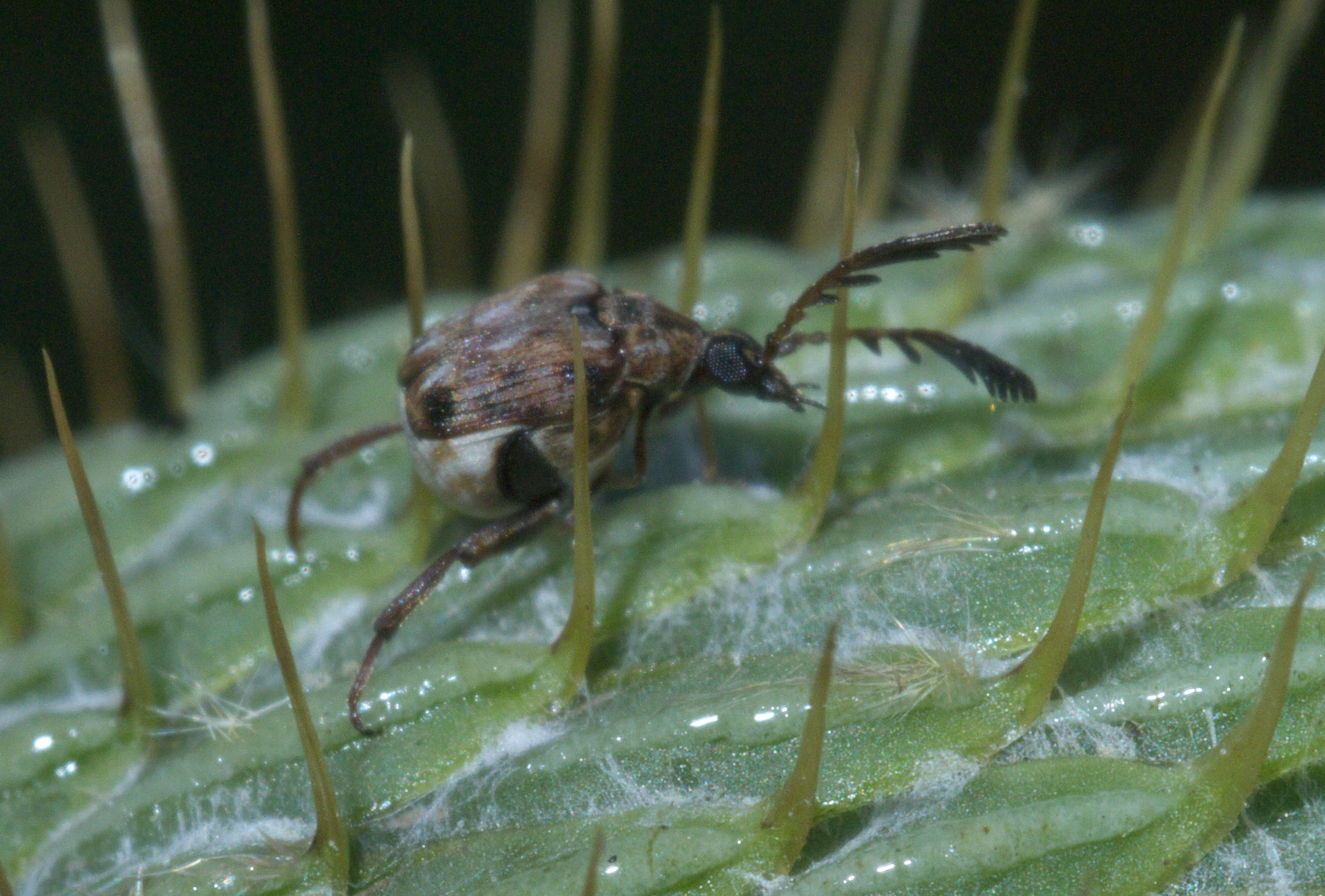 Megacerus cubiculus, Genus: Large-horned Bruchids, ID Confidence: 87